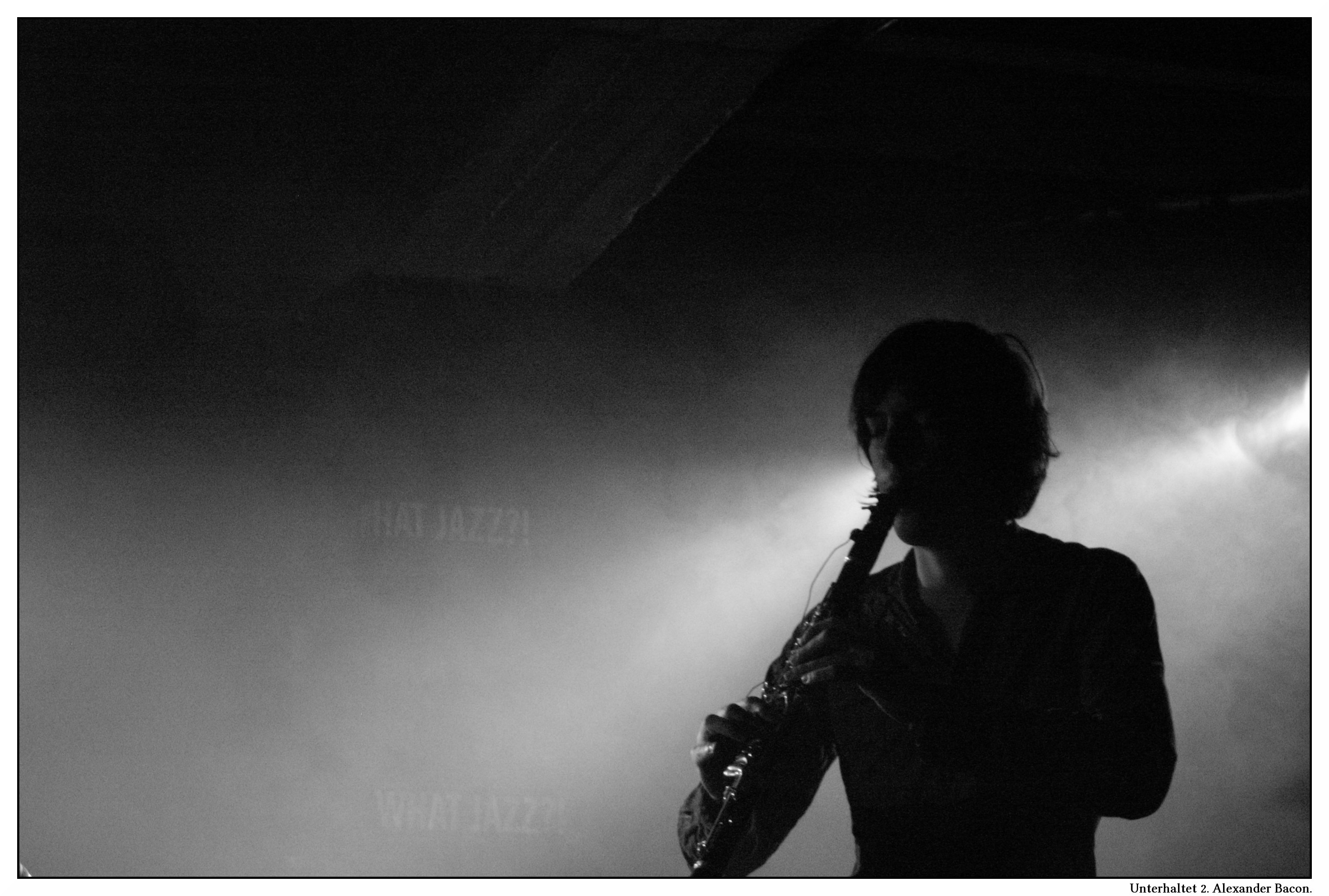 DAAU during the What Jazz!? festival in Hasselt